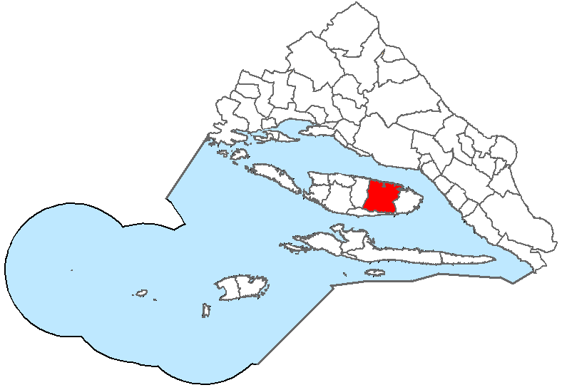 Position of municipality inside Split-Dalmatia County